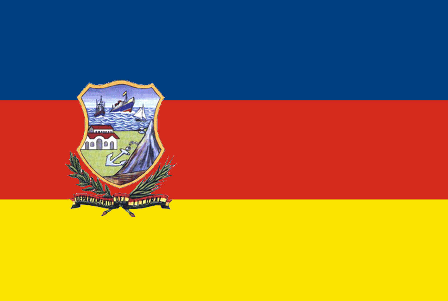 Bandera de la antigua provincia del Litoral de Bolivia, actualmente parte de la Región de Antofagasta de Chile Alleged flag of the former province of Litoral Bolivia, now part of the II Region of Chile